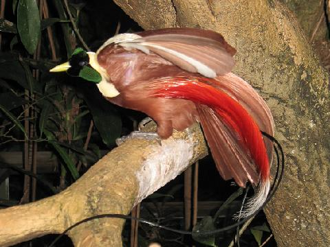 Description: Red Bird of Paradise - Source: own work - Location: Central Park Zoo, New York - Author: self, User:Stavenn